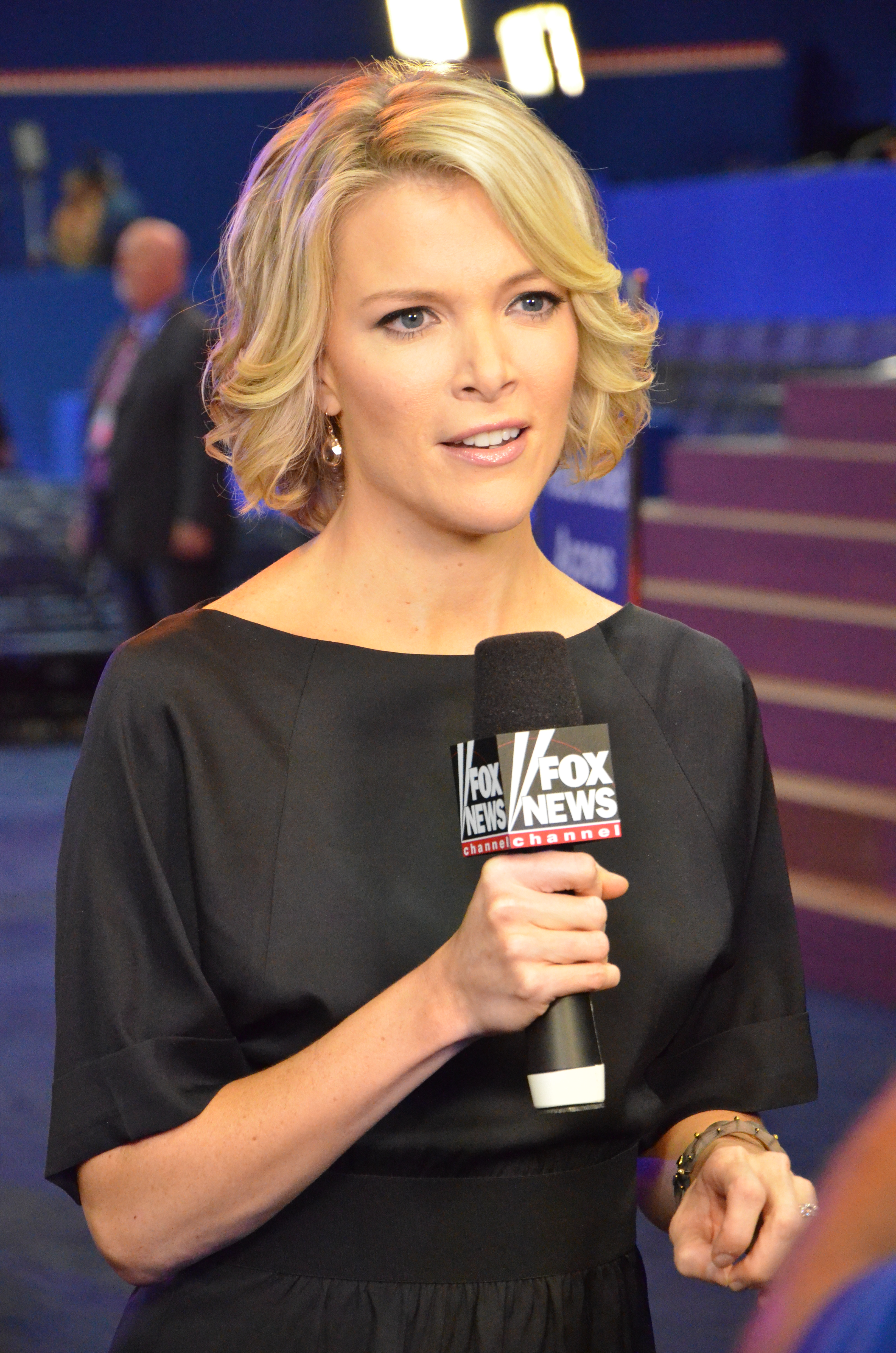 Photo of Megyn Kelly giving a standup news report from the floor of the Republican National Convention in 2012.